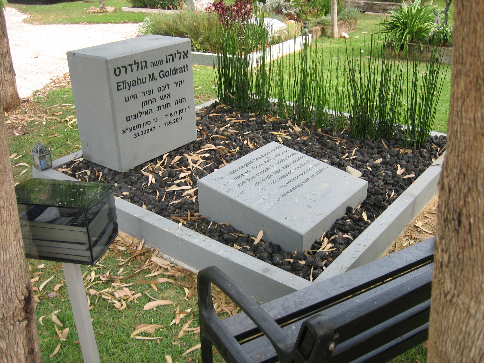 Eliyahu M. Goldratt's grave